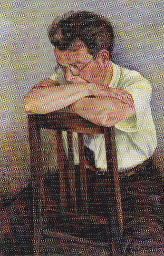 Portrait of Dutch writer Jac. van Hattum. Location in 2016: Nederlands Letterkundig Museum, The Hague (the Netherlands). Original: Bijzondere Collecties, Universiteit van Amsterdam